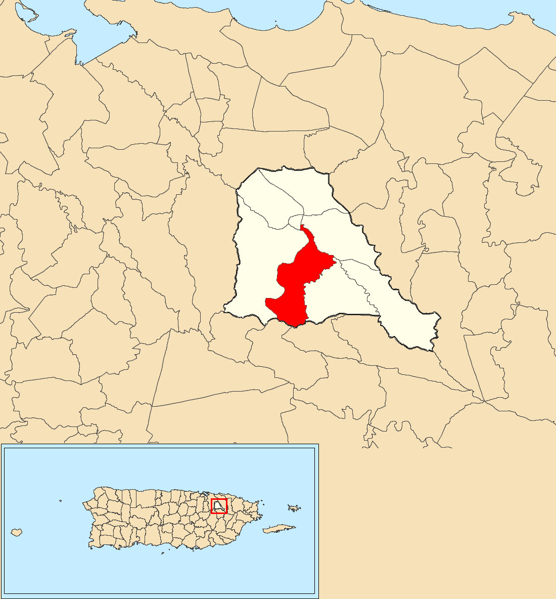 La Gloria, Trujillo Alto, Puerto Rico locator map